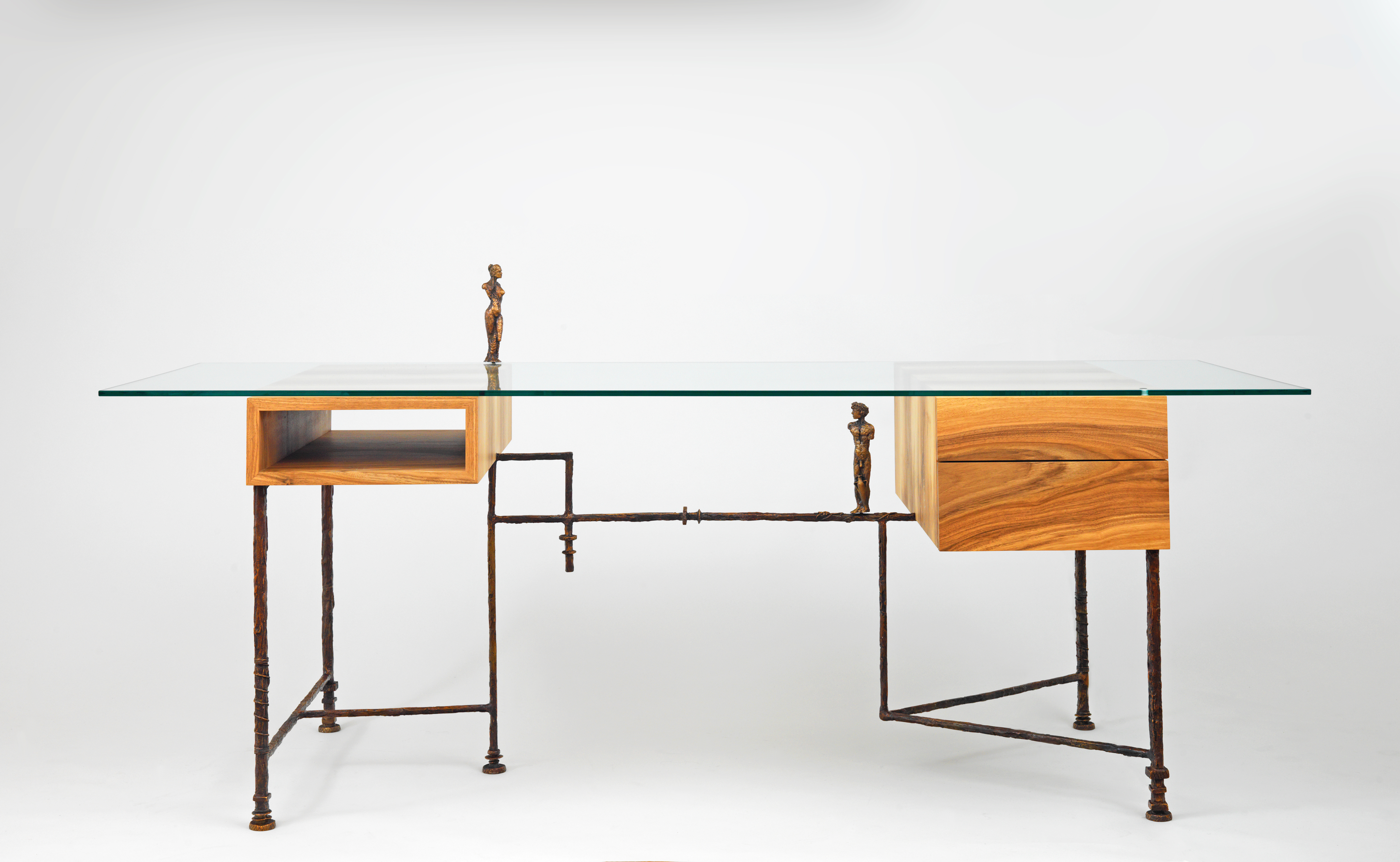 A desk made out of bronze with sculpted figures. Nut wood drawers and glass table top.